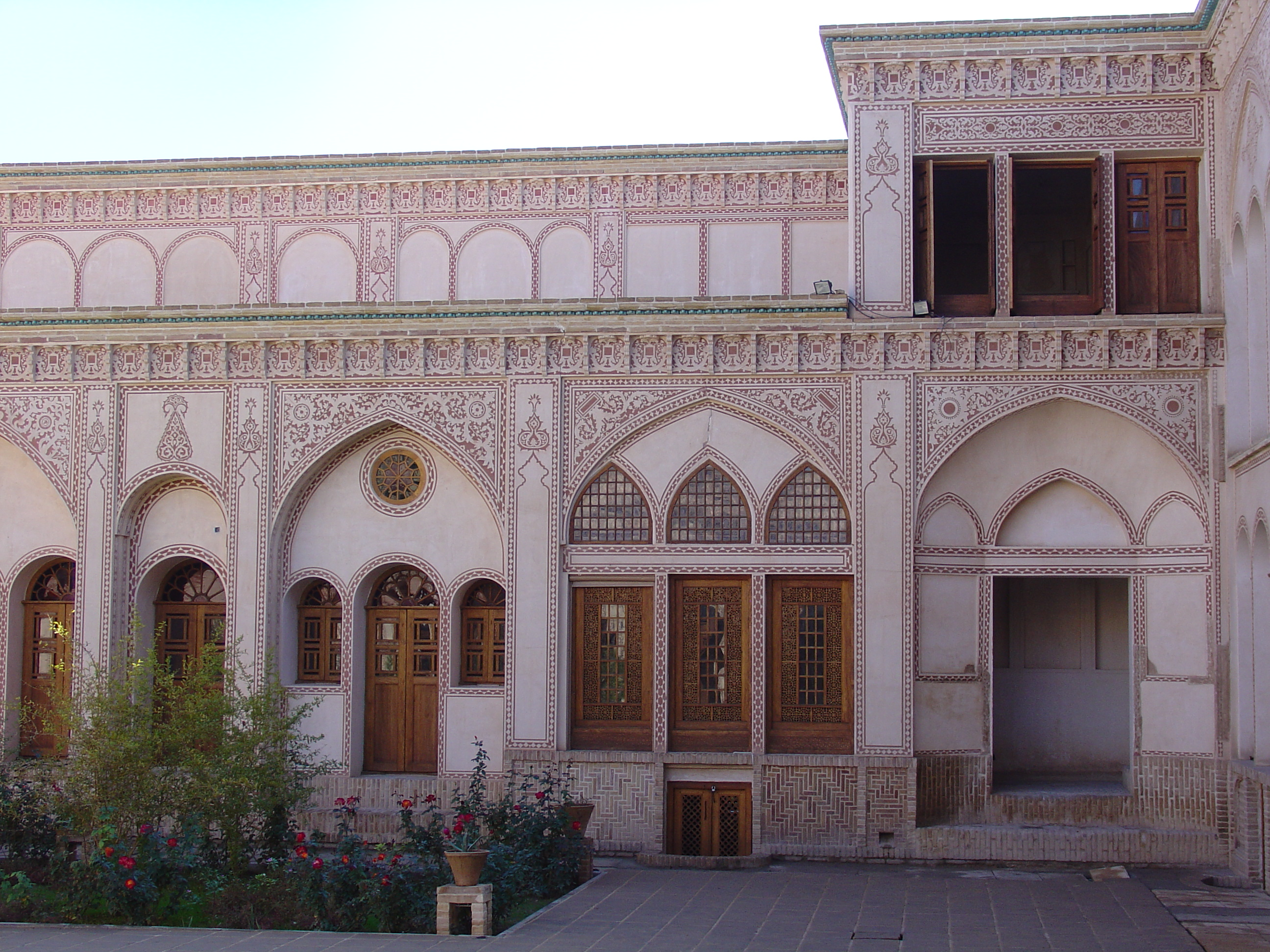 Amerian House, Kashan, Iran.